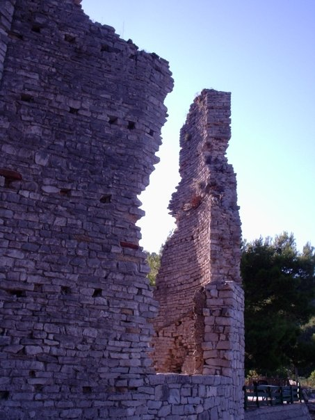 The ruin of tower of the roman palace in Polače, Mljet, Croatia